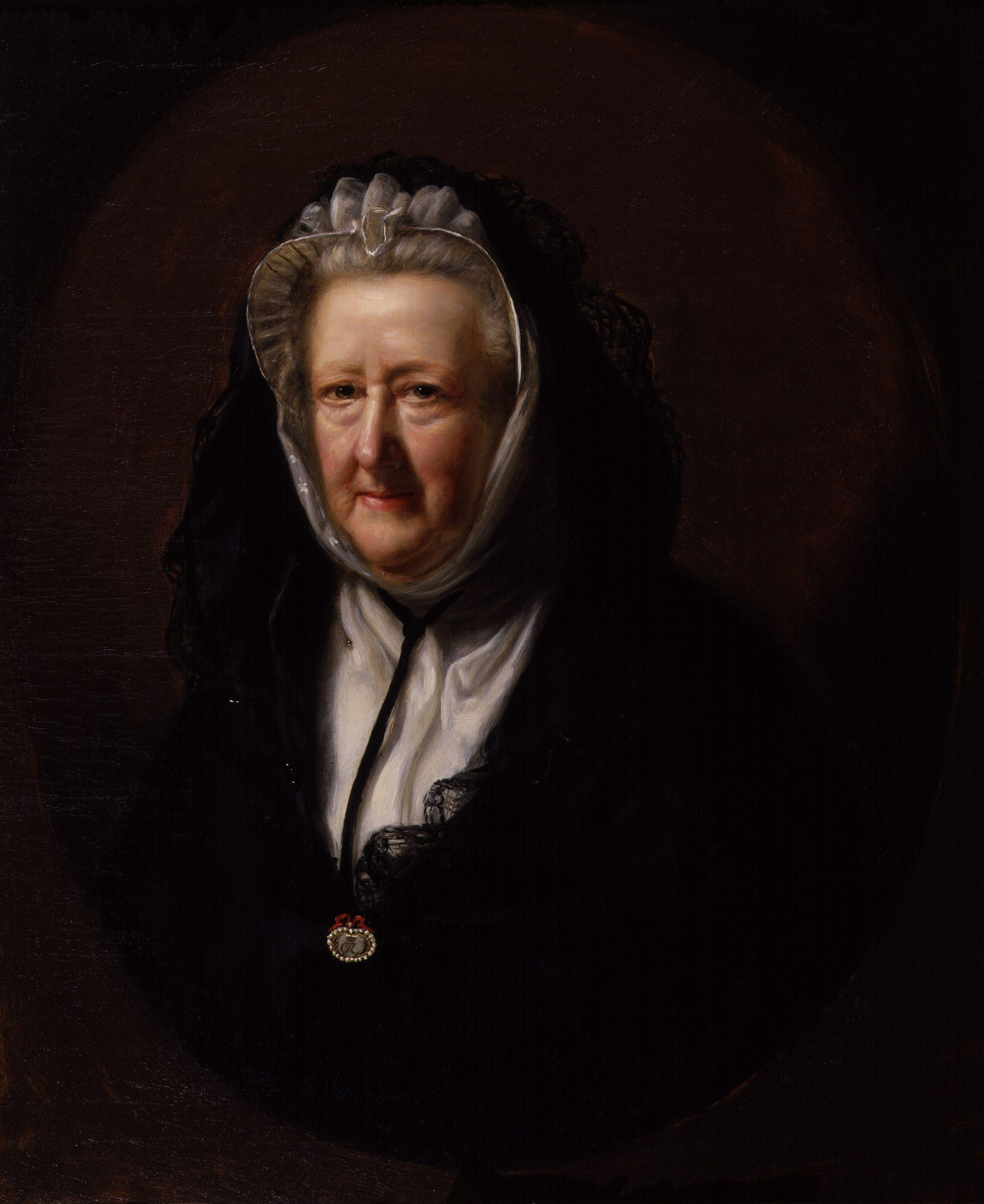 Mary Delany (née Granville), by John Opie (died 1807). All images in this batch have been confirmed as author died before 1939 according to the official death date listed by the NPG.